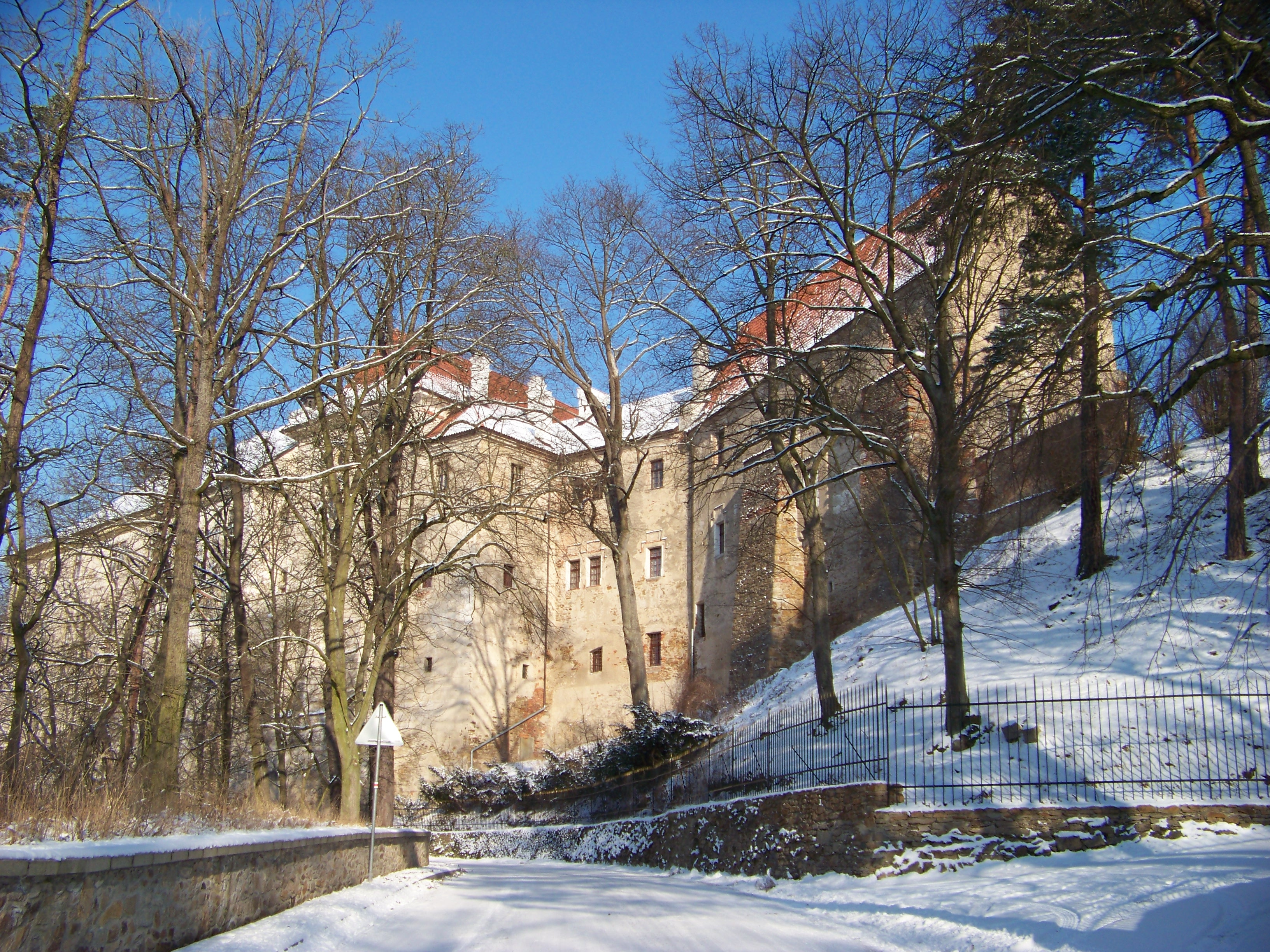 Bechyně, Tábor District, South Bohemian Region, the Czech Republic. The castle, seen from Táborská street.